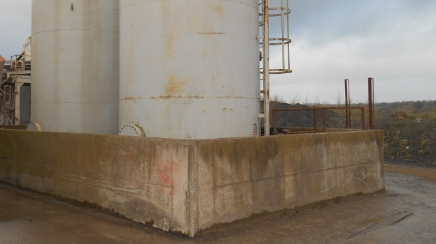 Example of a concrete bund for an oil storage tank